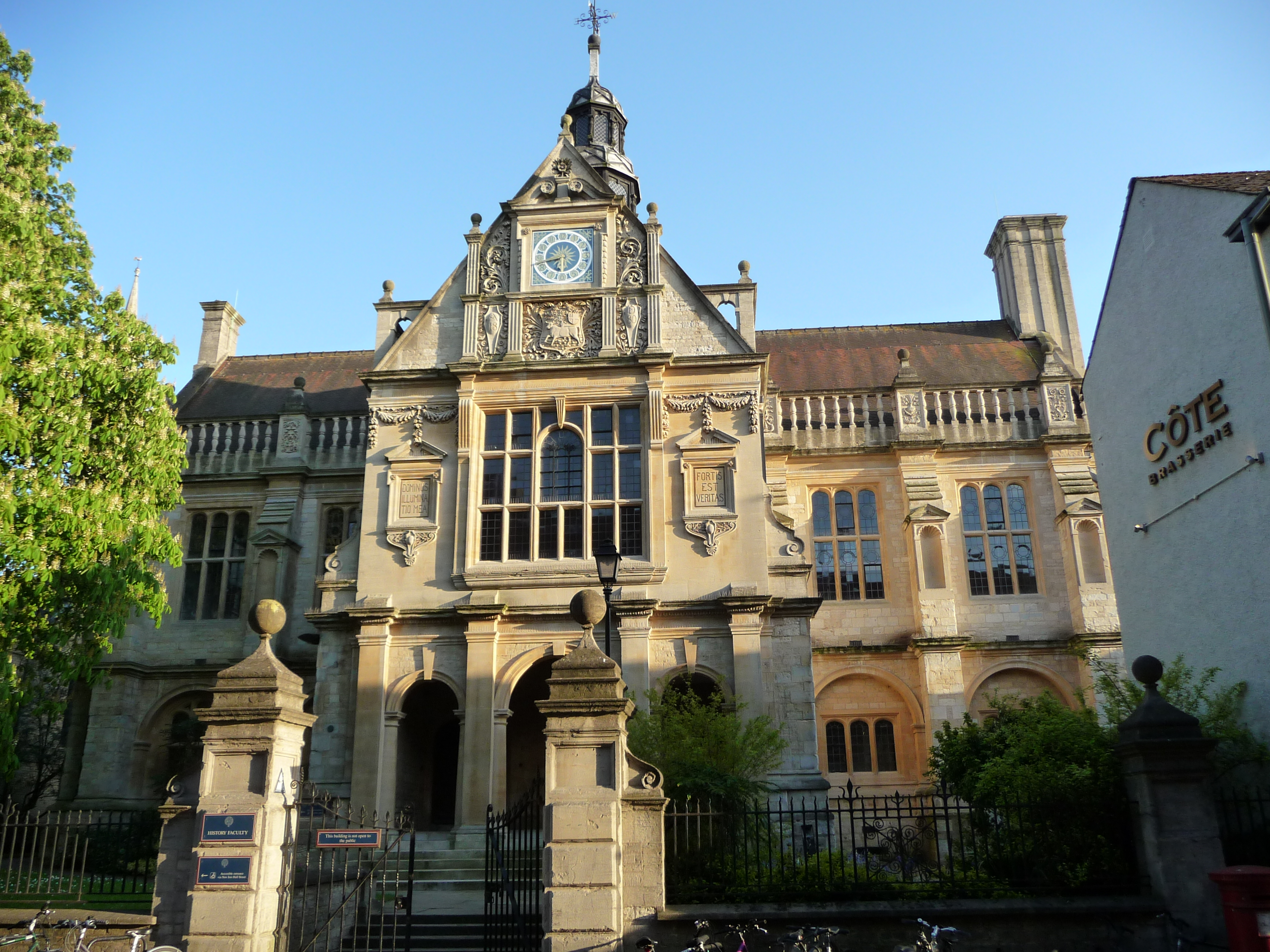 Entrance to Faculty of History, University of Oxford